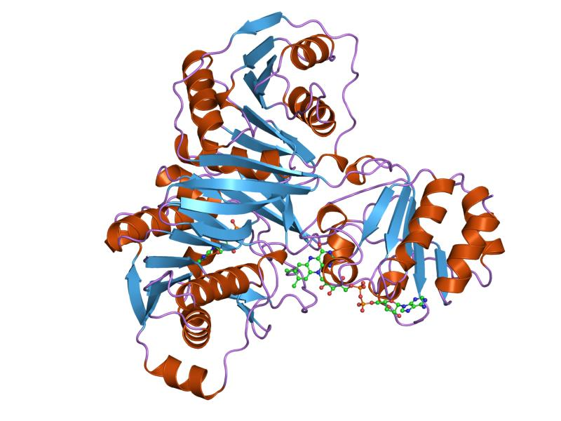 Cartoon representation of the molecular structure of protein registered with 1efv code.